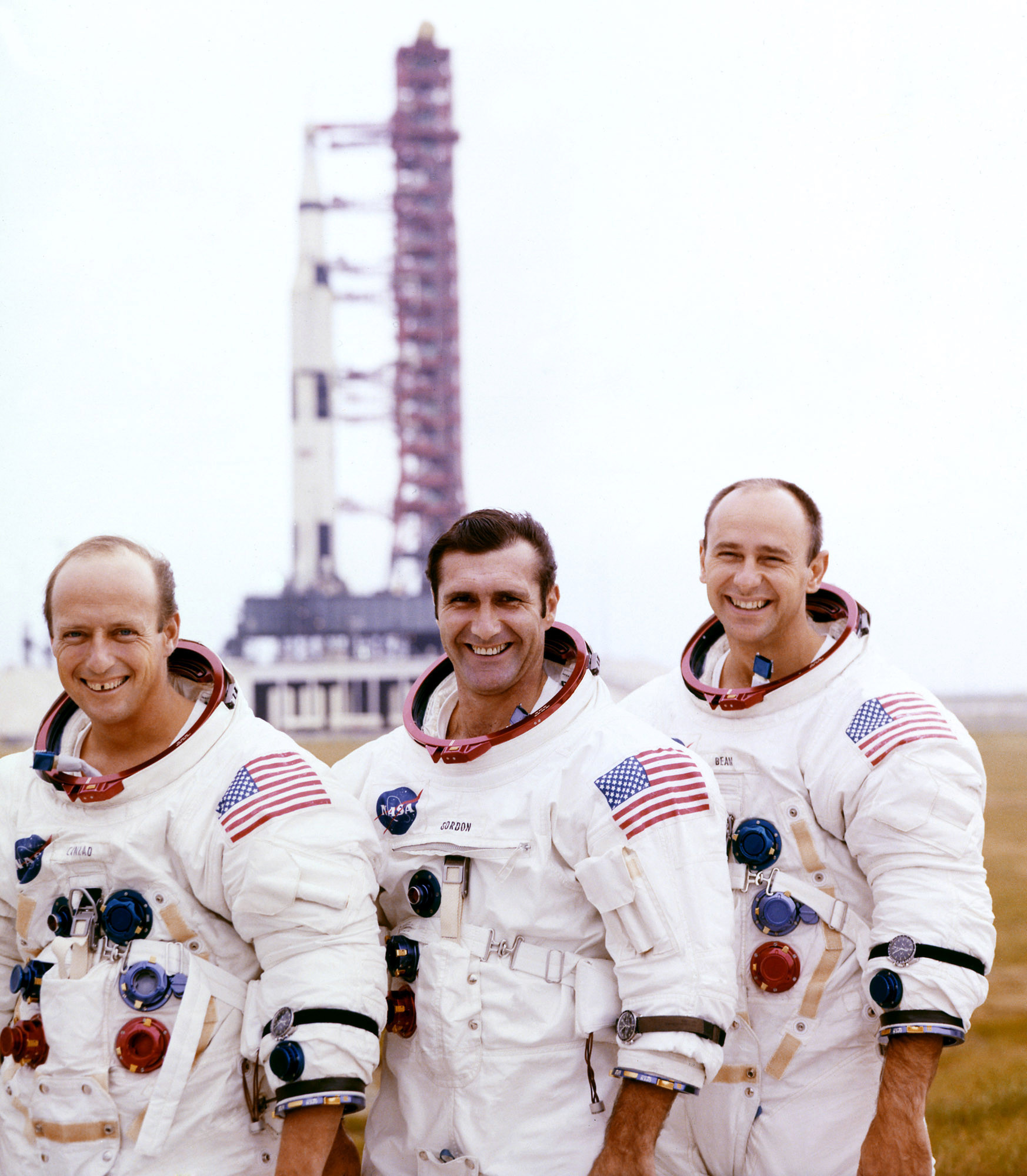 (Left to right) Pete Conrad, Dick Gordon, and Al Bean pose with the Apollo 12 Saturn V in the background on the pad at the Cape on 29 October 1969.